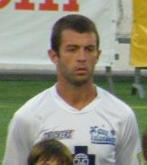 Pen picture of David Schofield pre kick-off.